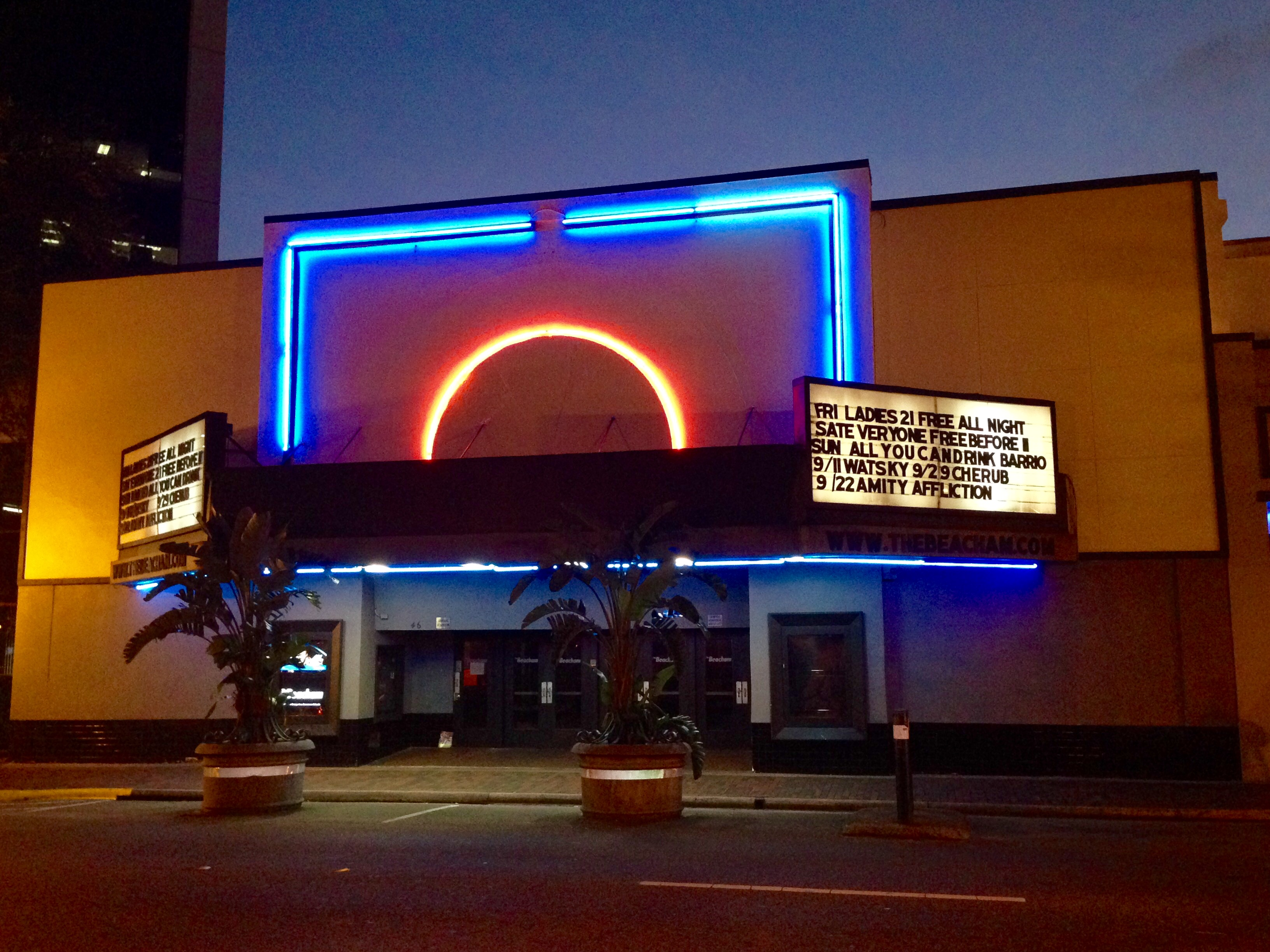 Facade of the Beacham Theatre at dusk in Orlando, Florida on September 9, 2016 after a mild restoration.